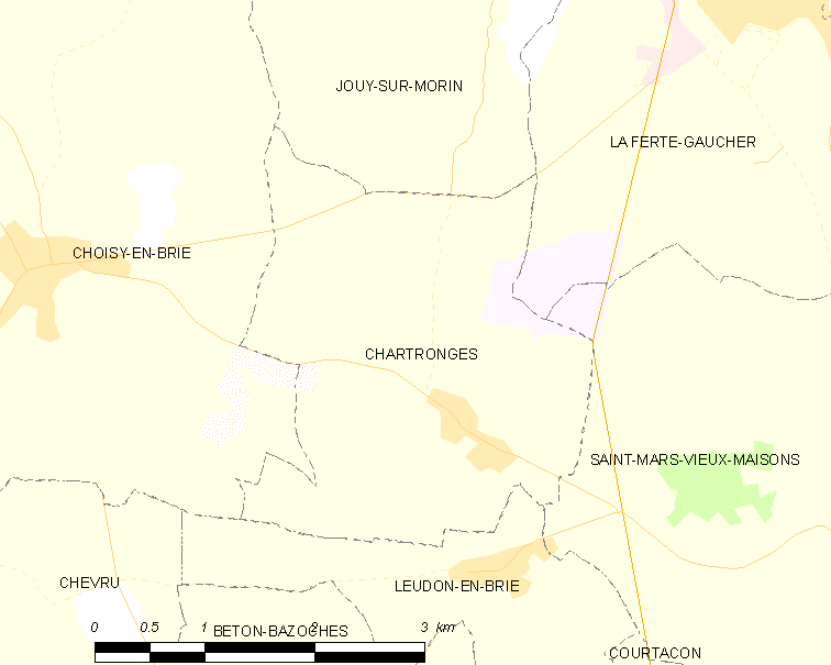 Map of French municipality Chartronges